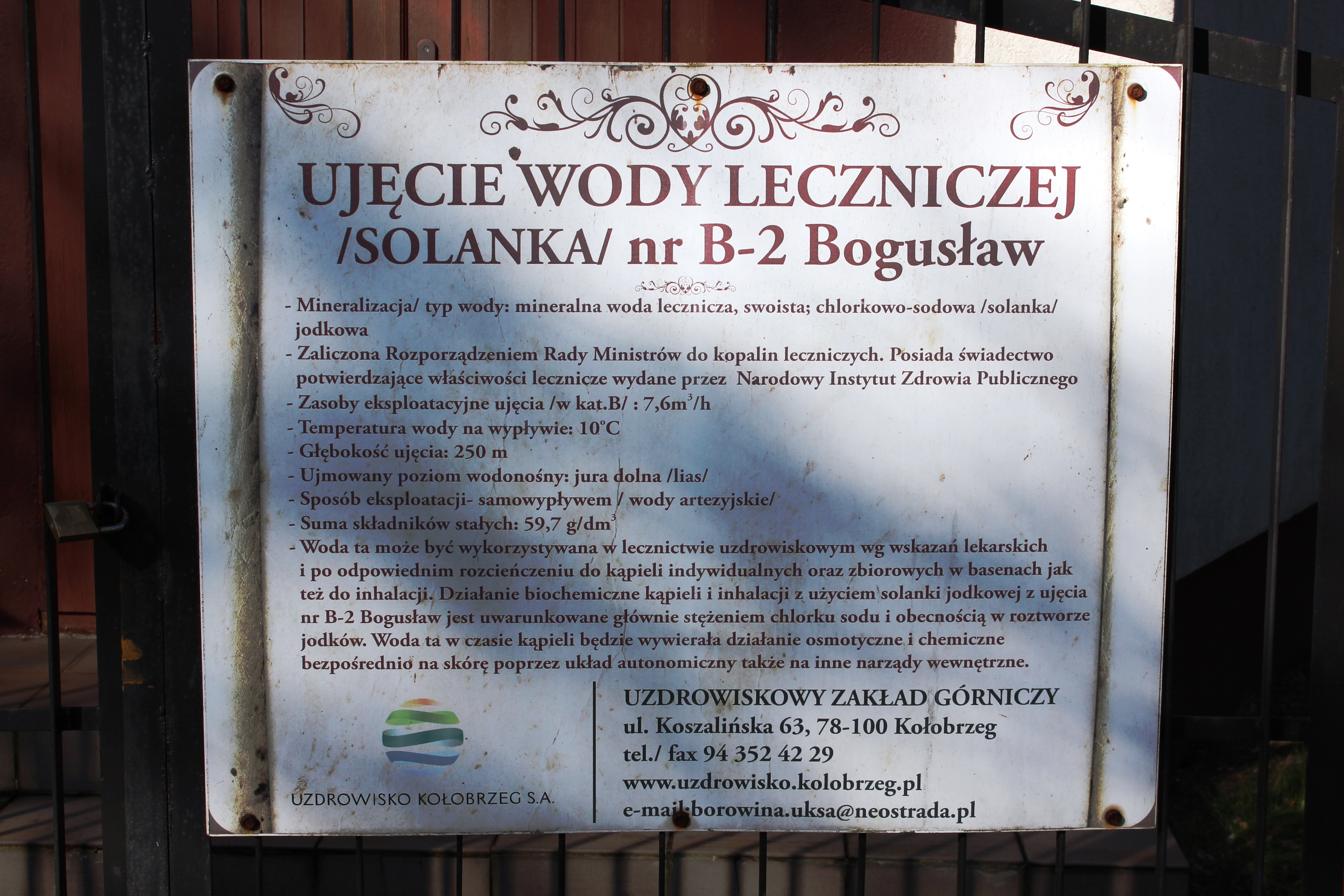 Brine well Bogusław in Kołobrzeg